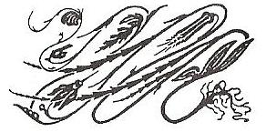 Simplified version of Cyclamen (Whiplash curves), tapestry, Münchner Stadtmuseum